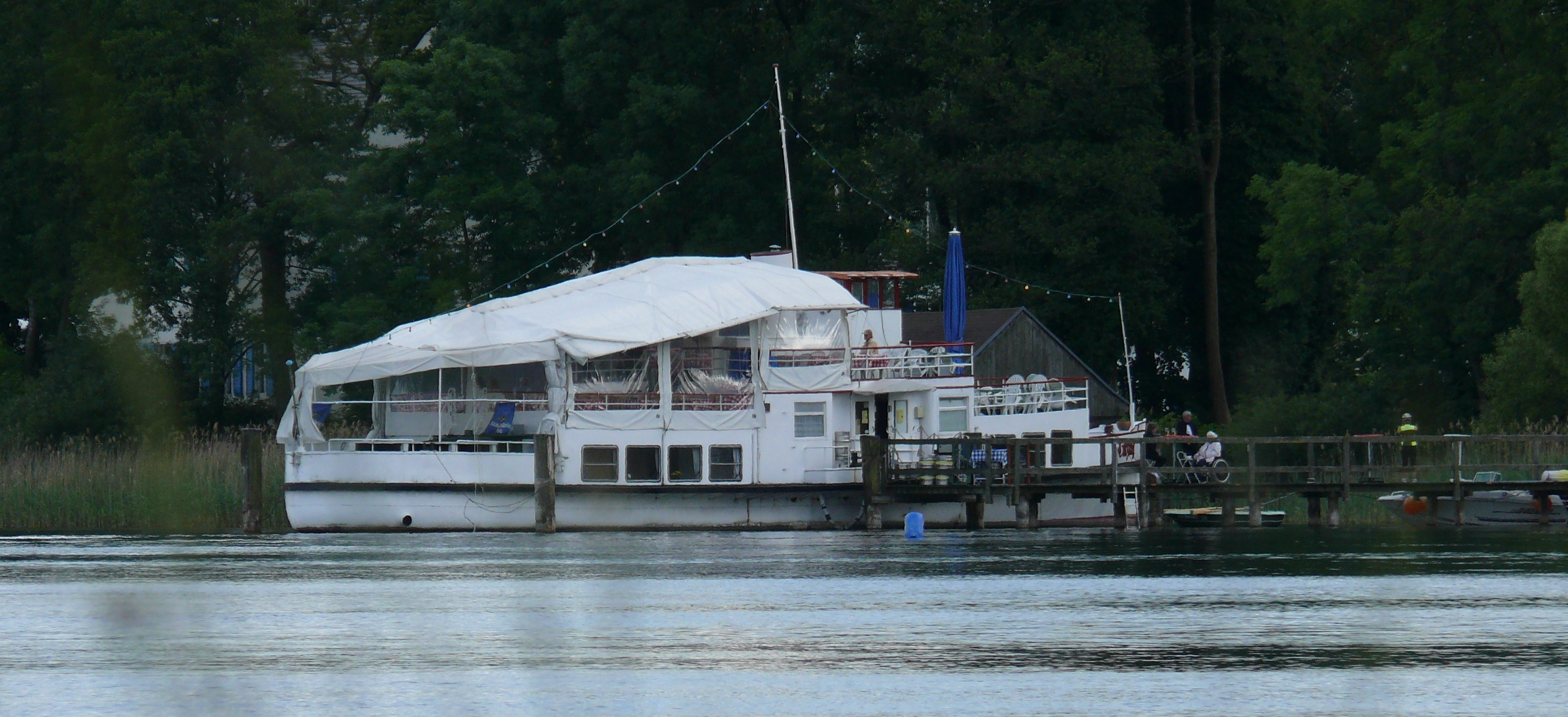 Picture of the museumship named "Tutzing" at the small harbour near the german city Tutzing